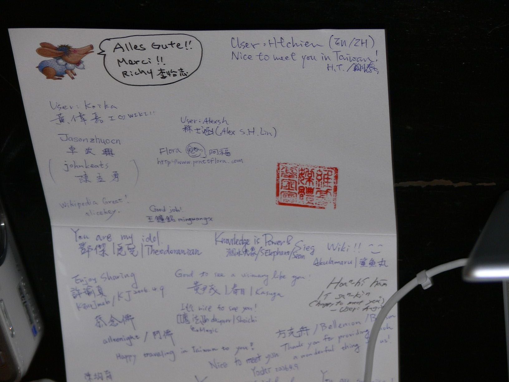 Taiwanese wikipedians meeting with Jimmy Wales on Apr. 09 2006 in Taipei. A greeting card full of Taiwanese wikipedians' signs and a seal send by Taiwanese wikipedians print on it. 台灣維基人與吉米·威爾士的見面會. 寫滿參加者的卡片以及蓋有台灣維基人致贈的"維基媒體基金會"印章.